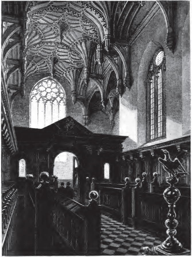 Drawing of the interior of Brasenose College Chapel, Oxford, circa 1835